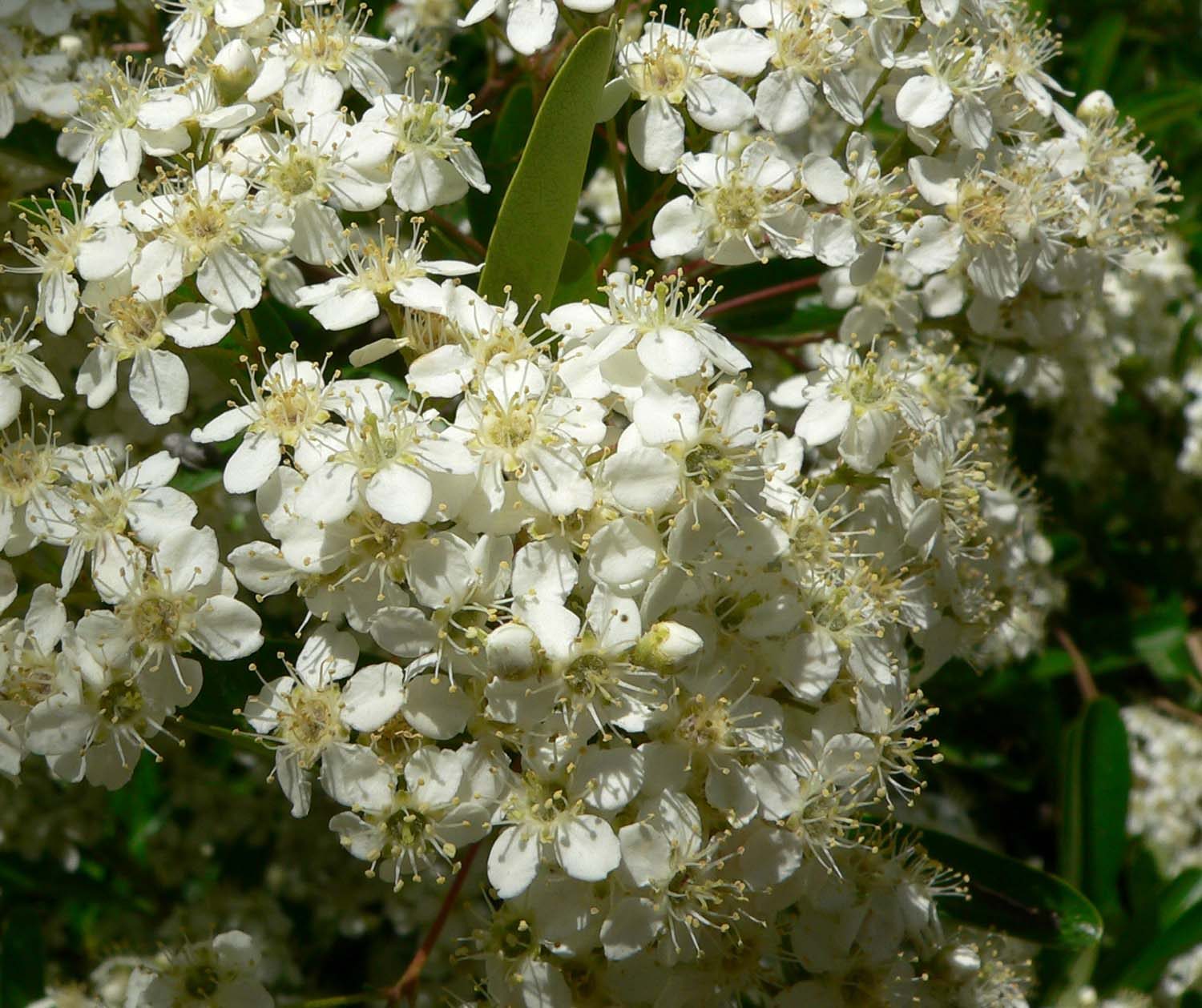 Photo of Pyracantha koidzumii 'Santa Cruz' flowers at the Desert Demonstration Garden in Las Vegas, Nevada